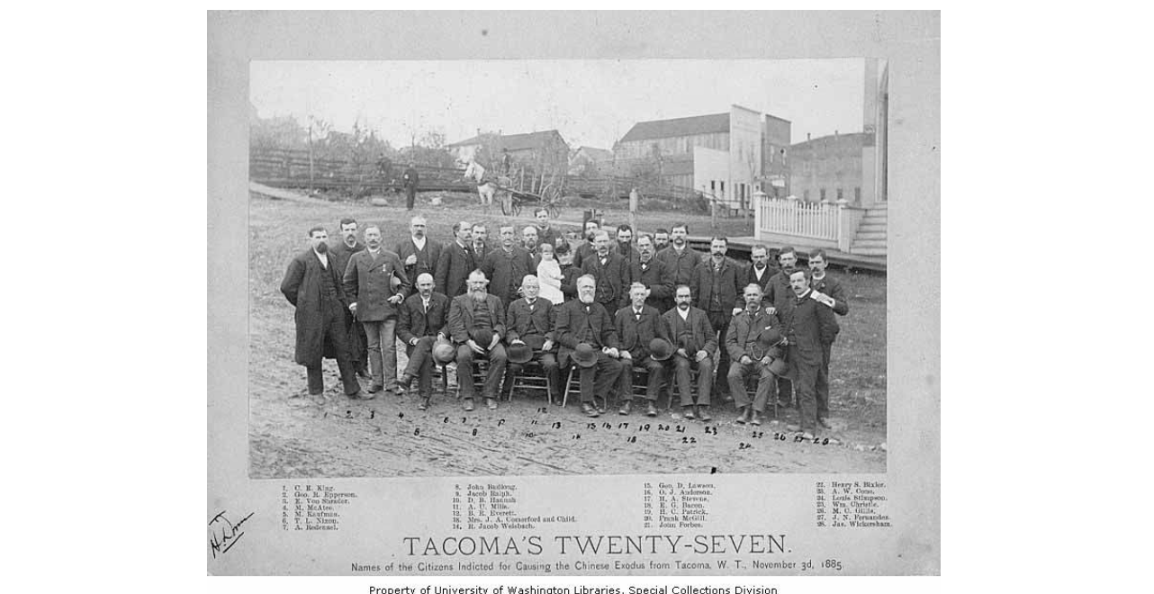 Group of citizens including Mayor Robert Jacob Weisbach responsible for intimidating the Chinese during the Anti-Chinese riots in Tacoma, Washington, November 3, 1885